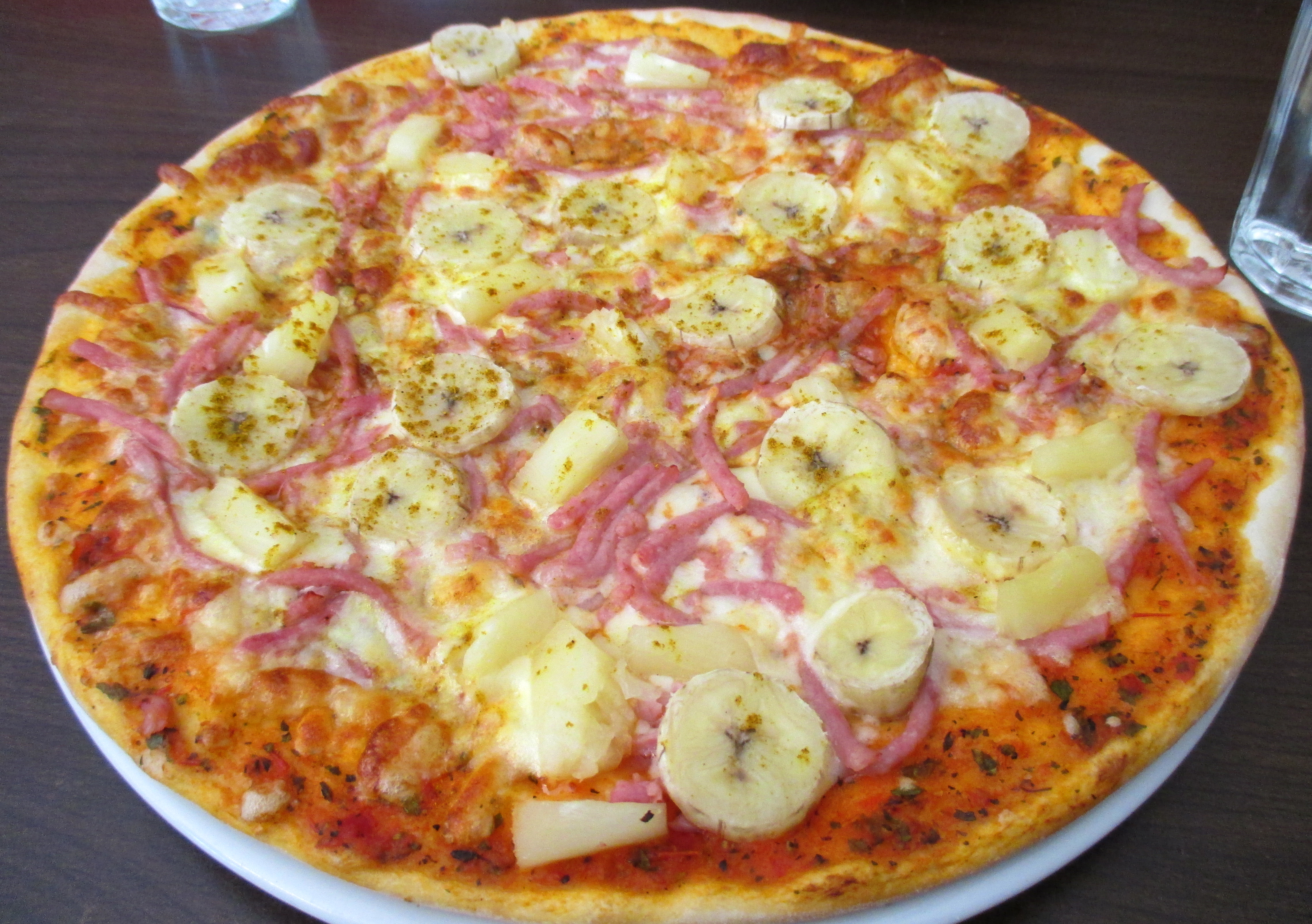 A Pizza Hawaii Special on a plate at Pizzeria Papillon in Sala, Sala Municipality, Västmanland County, Västmanland, Sweden. The pizza has tomato sauce, cheese, so called "pizza ham" (more like spam), banana, pineapple, and curry on it. The name Pizza Hawaii Special indicates that it is a special variant of Pizza Hawaii, a pizza with tomato sauce, cheese, "pizza ham", and pineapple, that is very common at pizzerias in Sweden. Similar pizzas with banana use to be called Banana or Africana at other Swedish pizzerias.